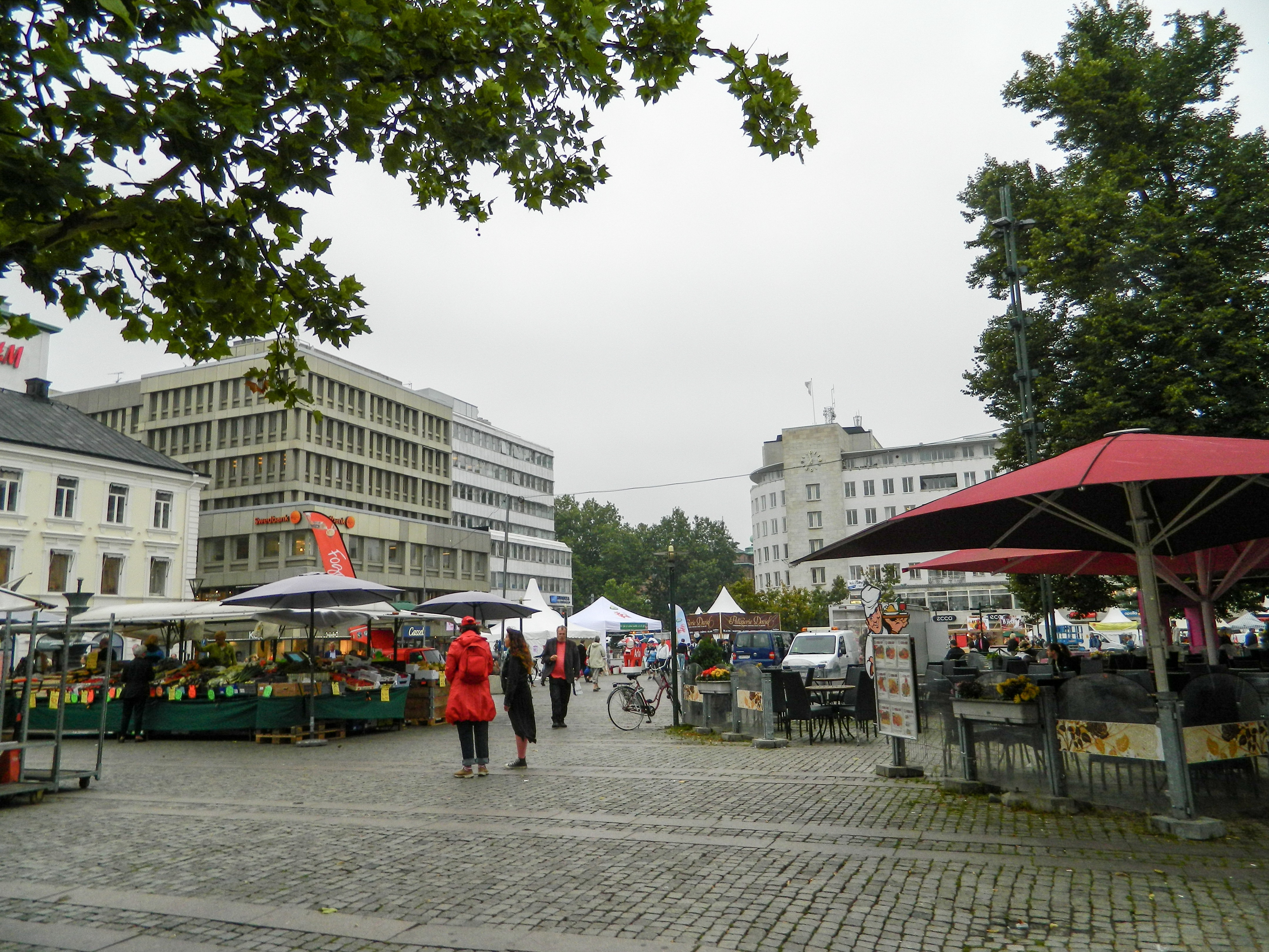 The Gustav Adolfs torg square, situated in the city of Malmo.